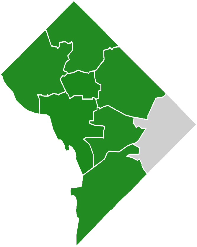 District of Columbia Green presidential primary election results by ward, 2012